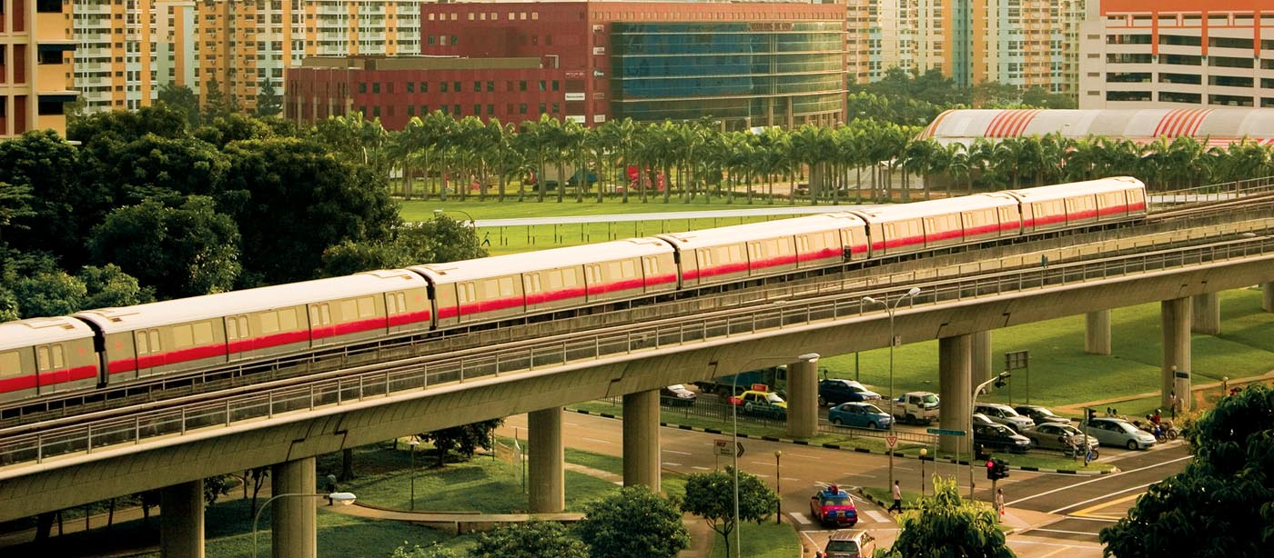 A view of Woodlands Square and Woodlands MRT Station photographed from Block 825 (Woodlands Avenue 7 and 2).